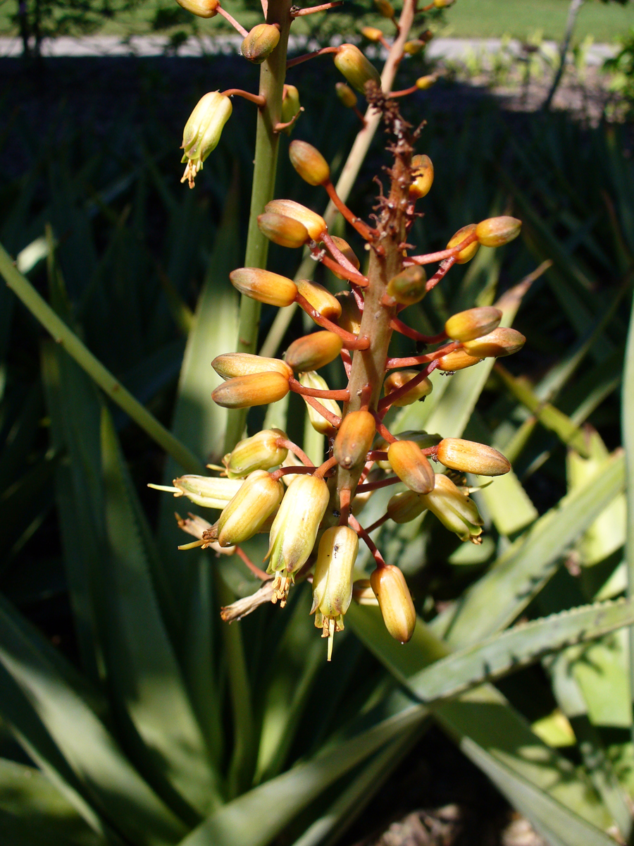 Lomatophyllum tormentorii, Now officially Aloe tormentorii, Fairchild Tropical Botanic Garden, Miami, Florida